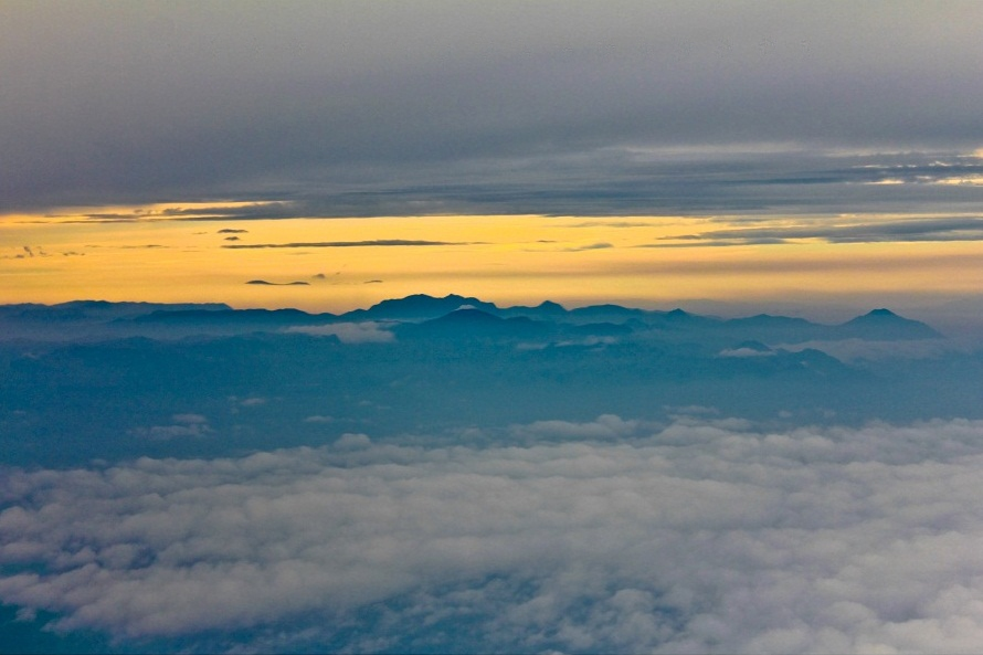 Anamudi is located in the Indian state Kerala. The name Anamudi literally translates to "elephants forehead," a reference to the resemblance of the mountain to an elephant's head.